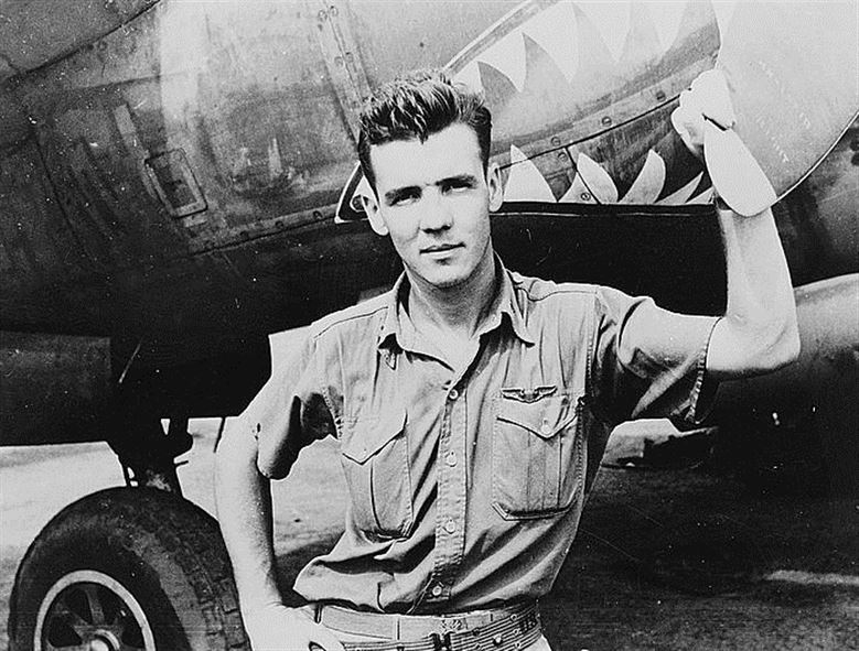 USAAF flying ace Thomas J. Lynch with his P-38